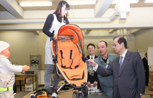 Yasuo Fukuda, Prime Minister, inspected product testing and safety training facilities run by the National Consumer Affairs Center of Japan in Sagamihara City, Kanagawa Prefecture on October 26, 2007.